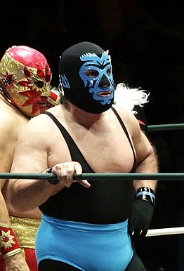 Masked wrestlers Mano Negra and Solar